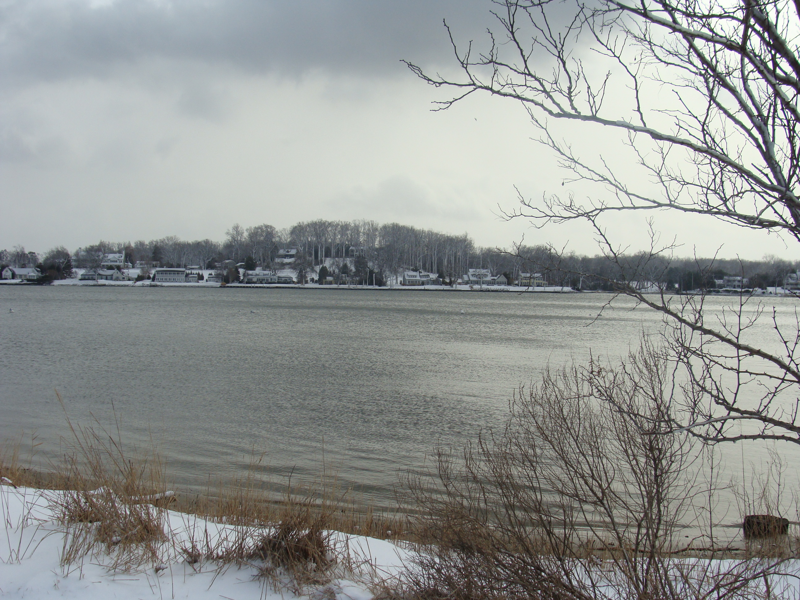 Gibson Island in Anne Arundel County, Maryland in late winter as seen from the mainland. There is a gated causeway out of frame to the left.